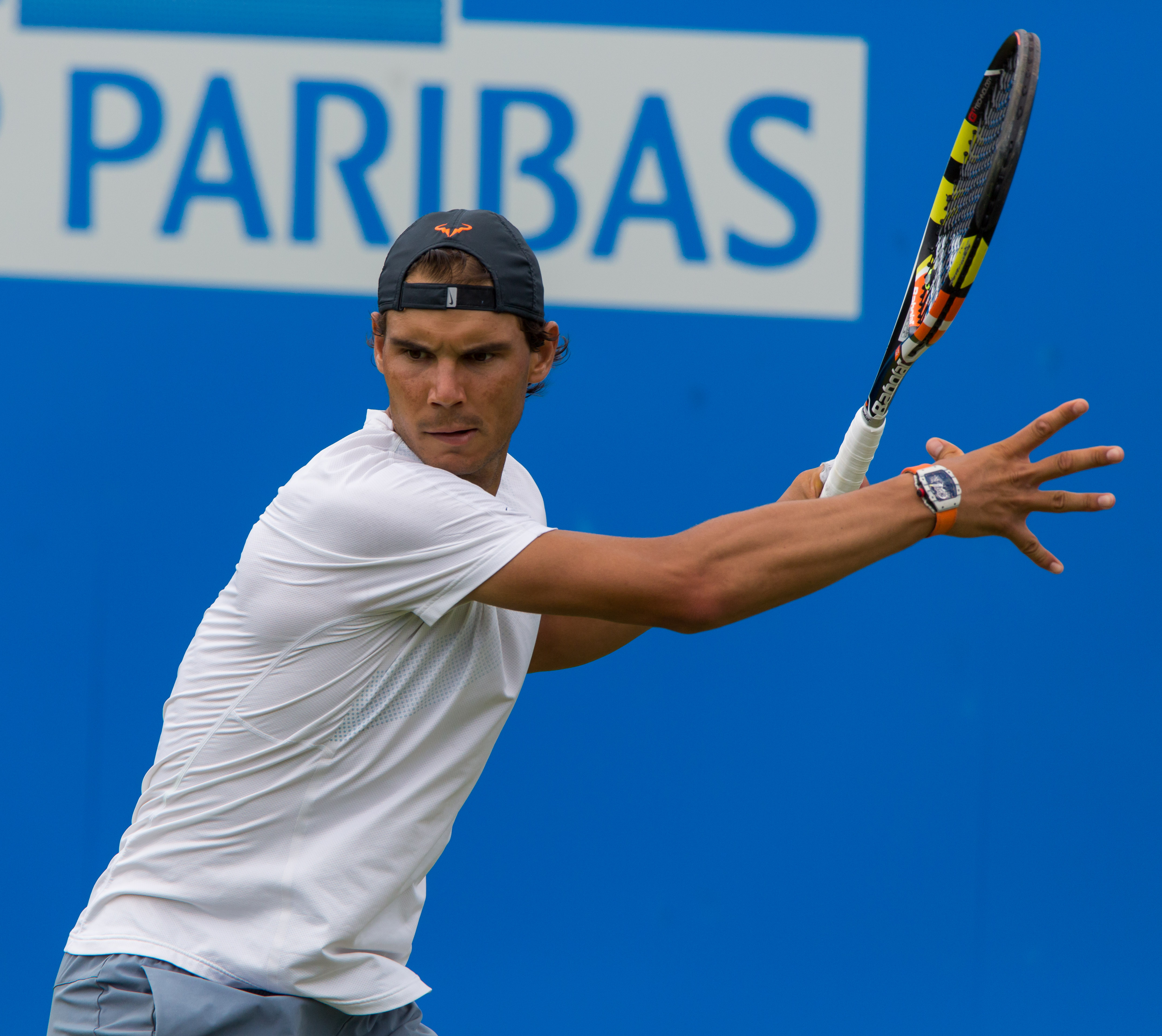 Rafael Nadal during practice at the Queens Club Aegon Championships in London, England.